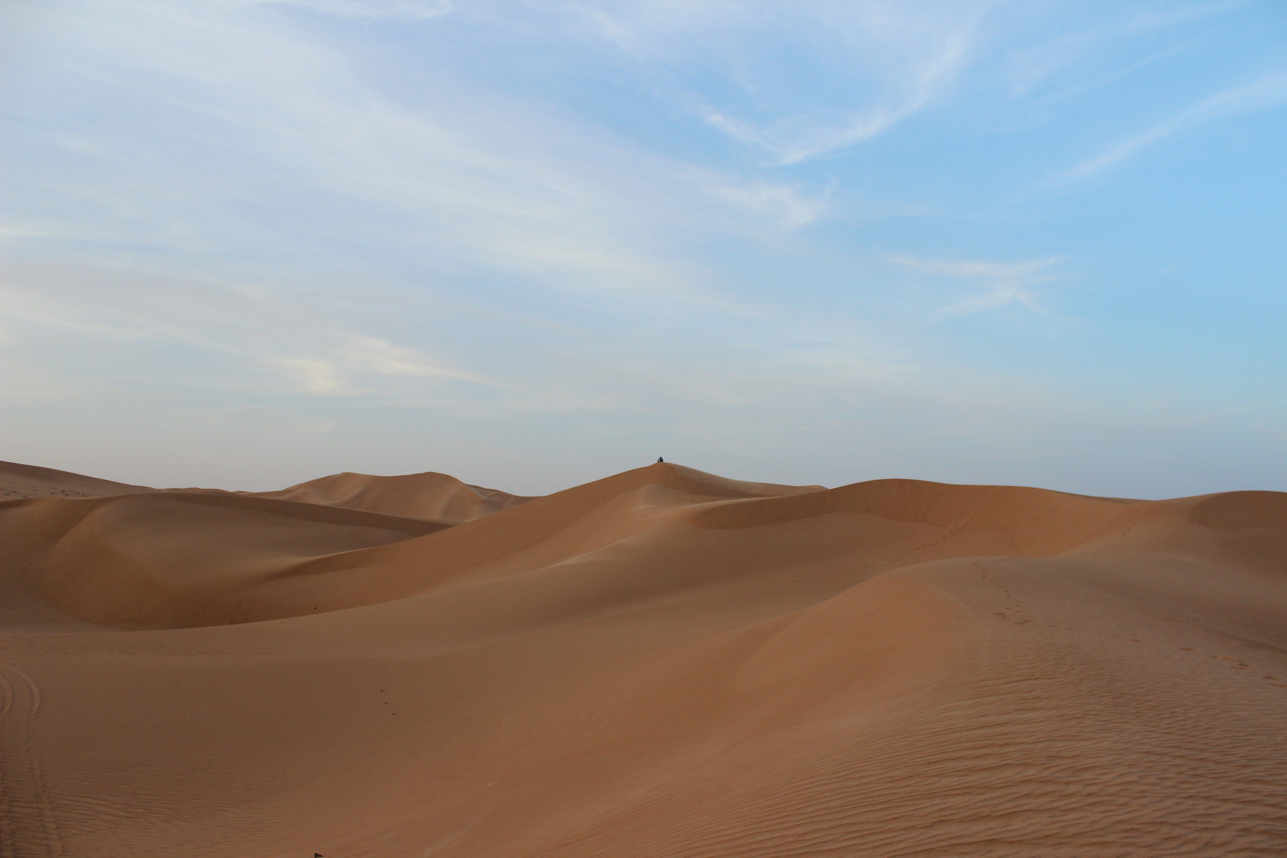 Grand Erg Occidental(near timimoun)